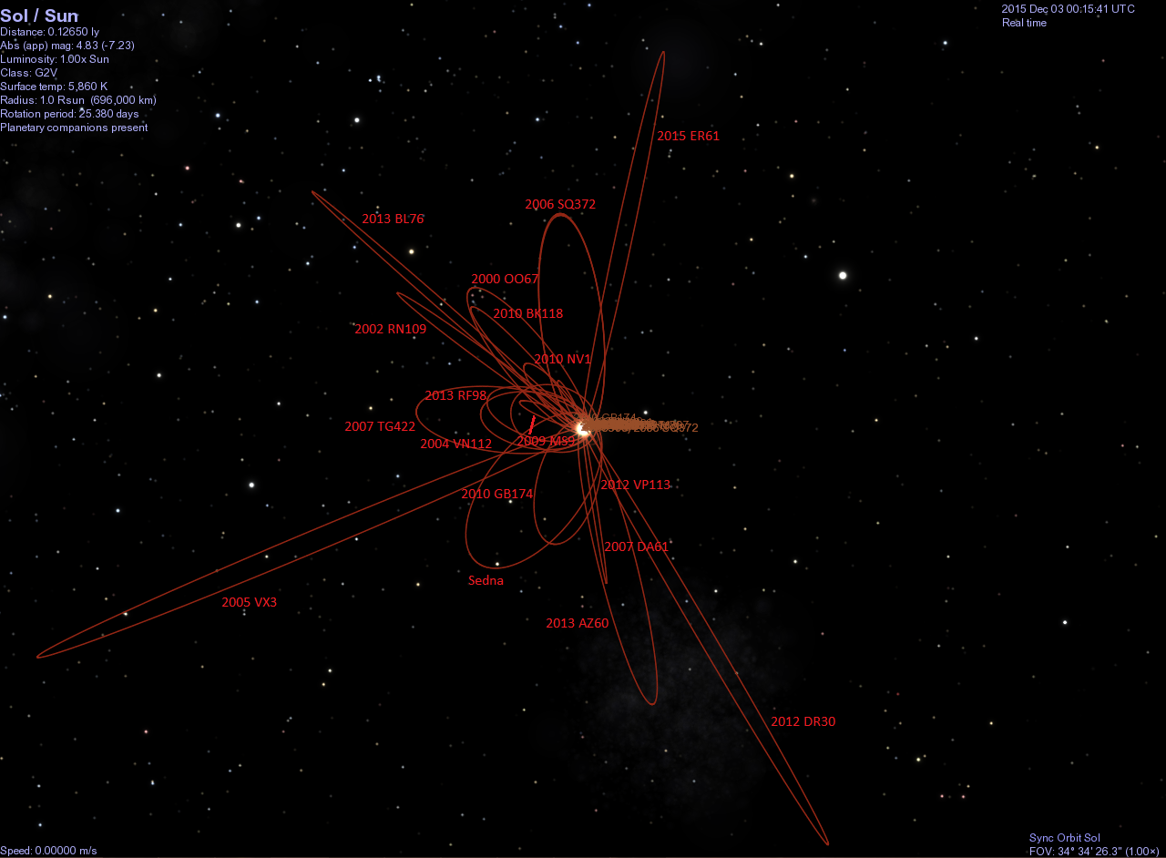 A screenshot of the orbits of some of the most distant objects in the Solar System.